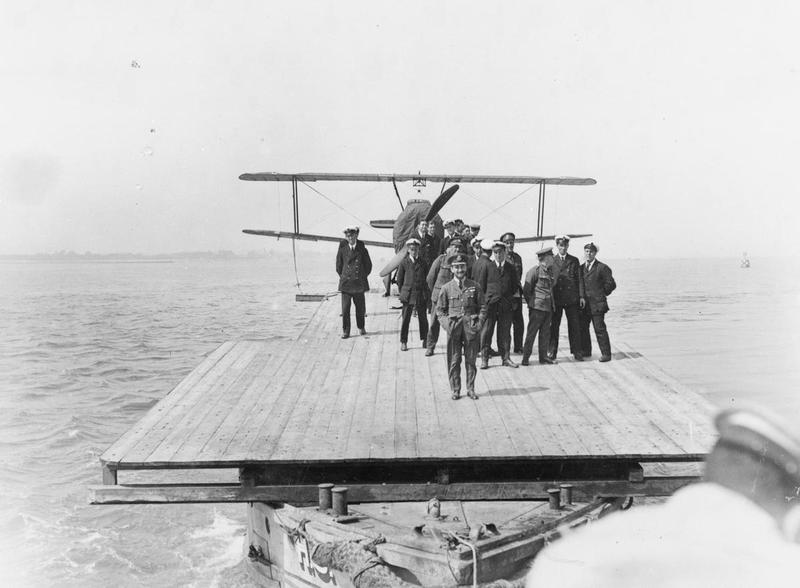 Commander C. R. Samson and Lighter crew with Sopwith Camel 2F.1 fighter biplane embarked on board.